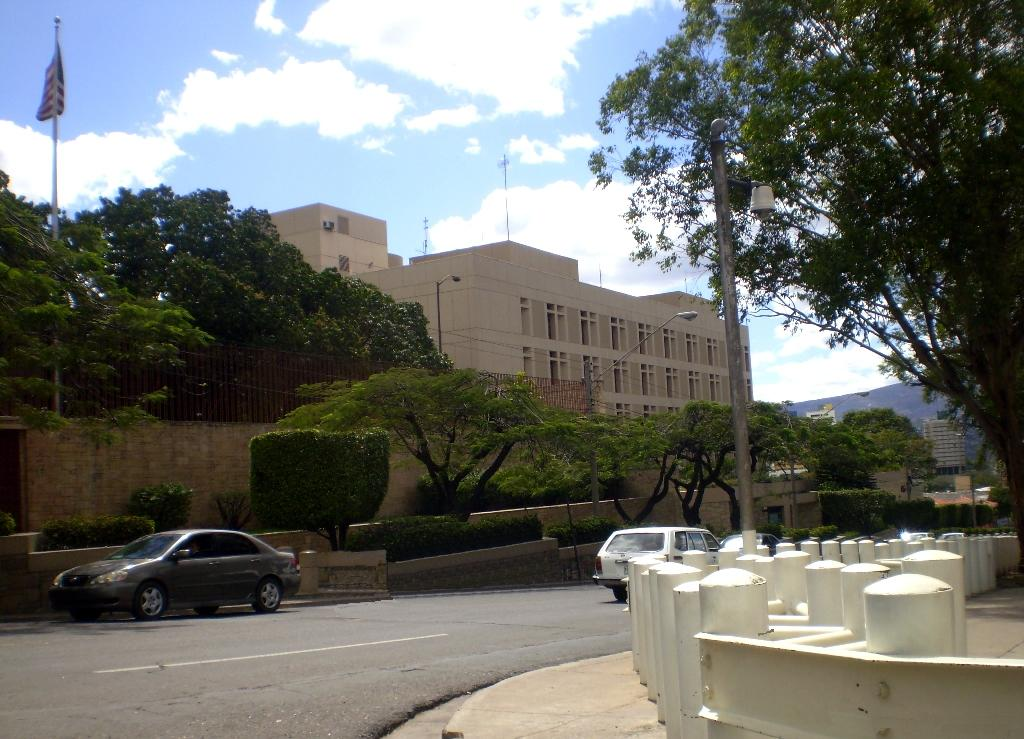 US Embassy building in Tegucigalpa, Honduras. North facade as seen from La Paz Avenue.